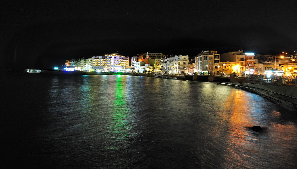 Marsalforn by night, 10 sec exposure